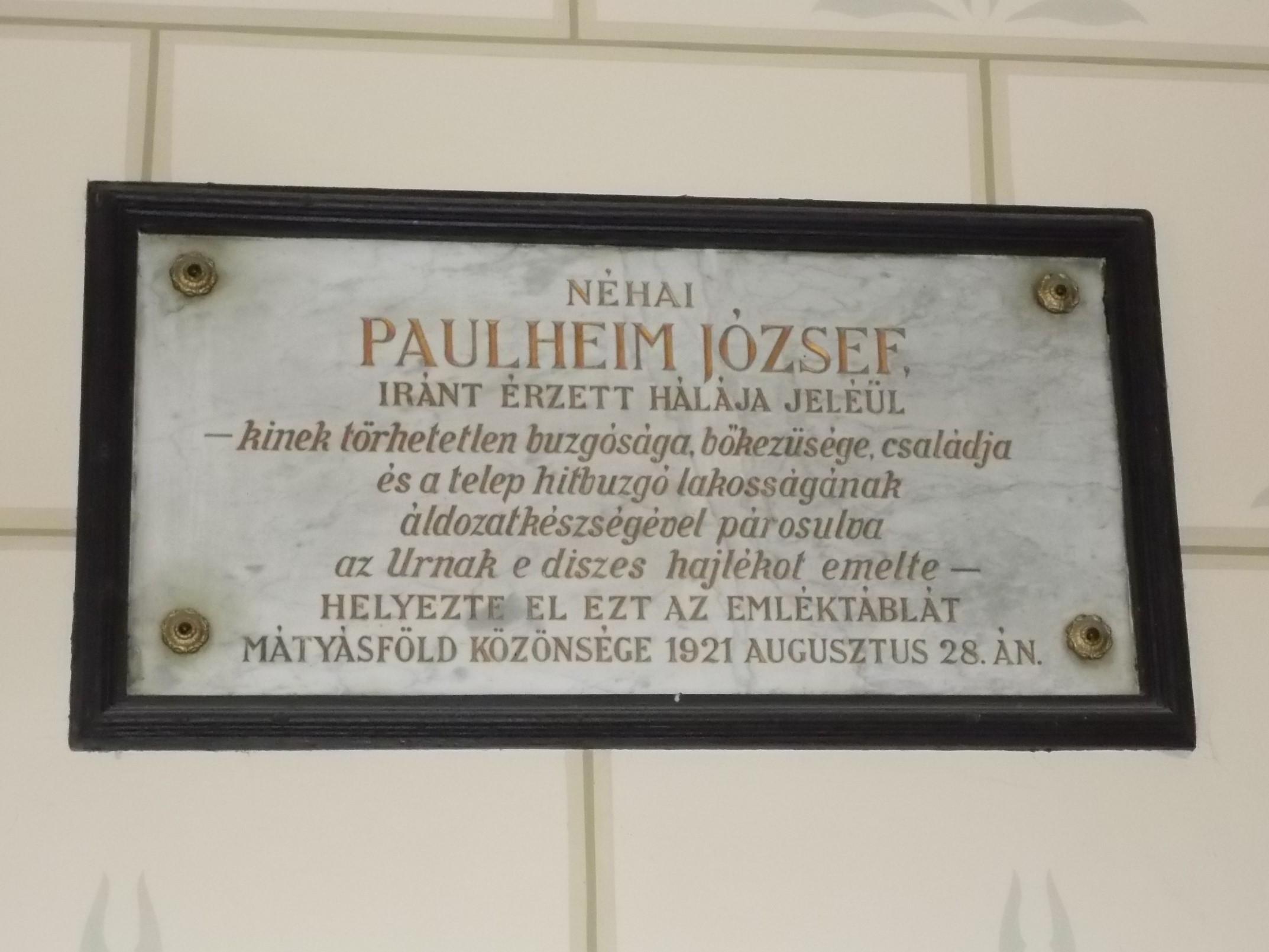 Saint Joseph the Worker Church (1905). - Paulheim József Square, Mátyásföld, 16th district of Budapest.